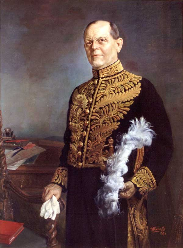 Lieutenant Colonel The Hon. Ray Lawson, OBE, KGStG, LL D, DCmL [Lieutenant Governor of Ontario, 1946-52]